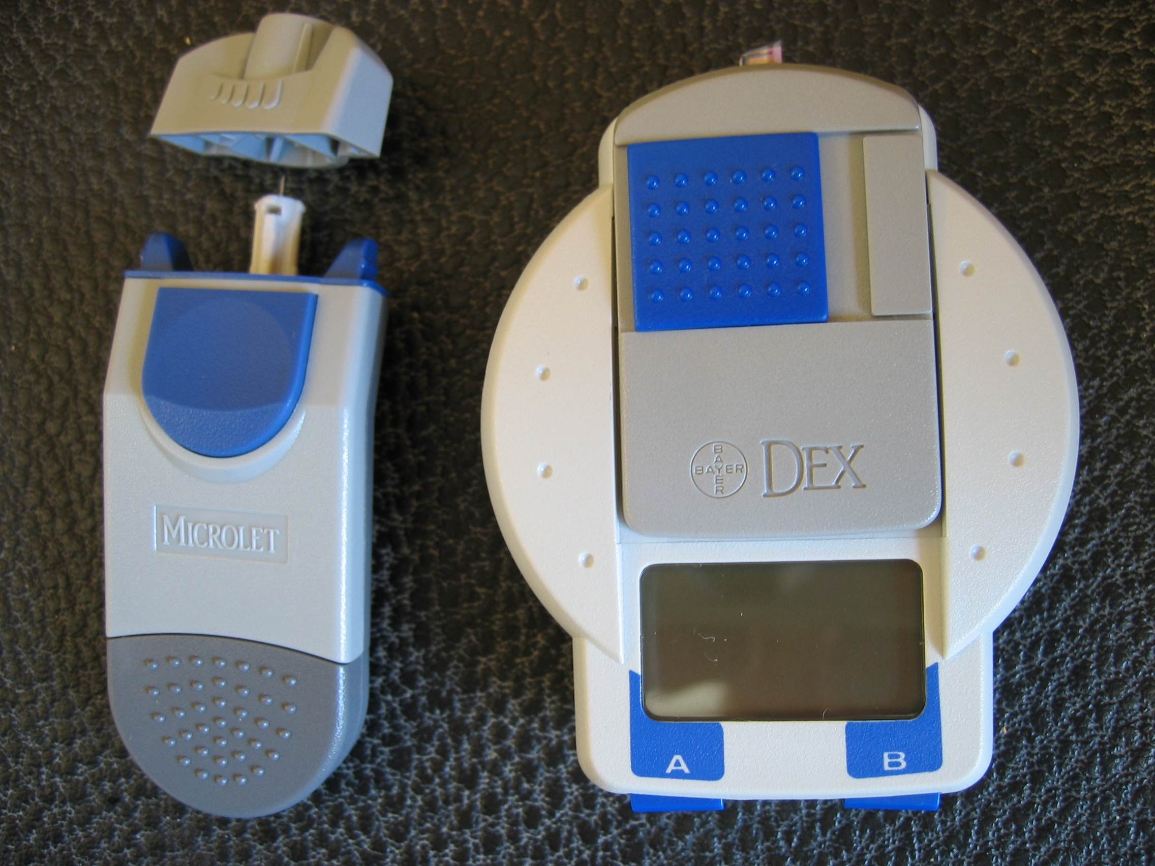 Modern glucometer (Bayer Dex) for measuring blood glucose level, with skin puncture needle (Bayer Microlet) seen to the left.